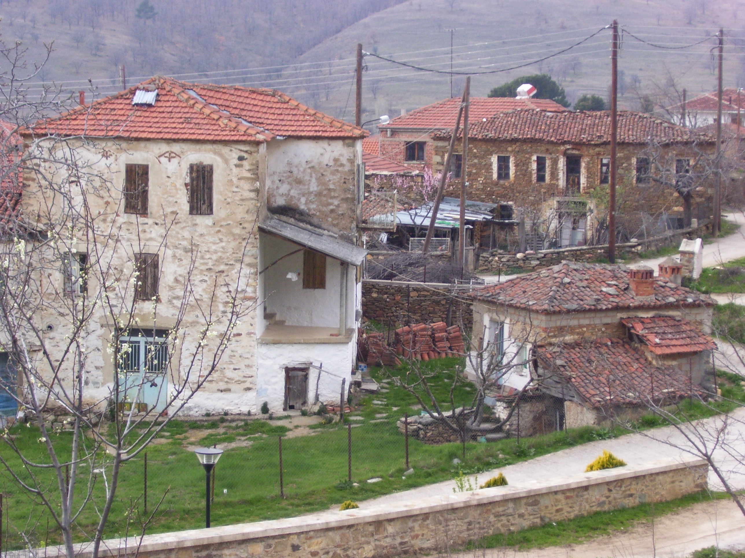 Village of Vasiliada, Kastoria prefecture, Greece.